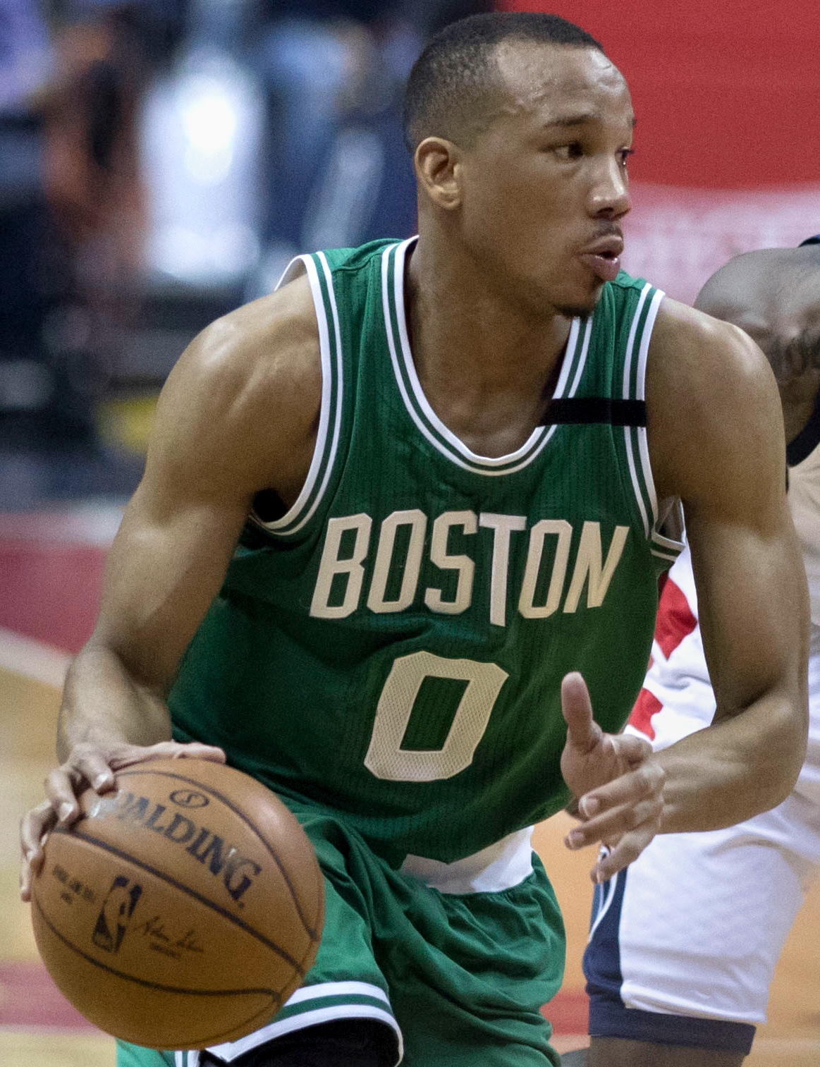 Celtics at Wizards 5/12/17; Avery Bradley